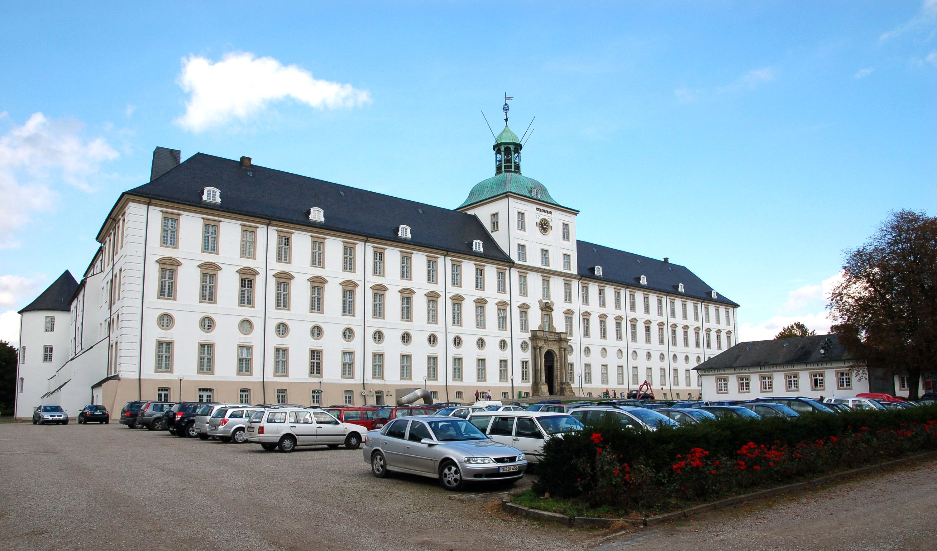 Gottorp Castle, Schleswig, Germany